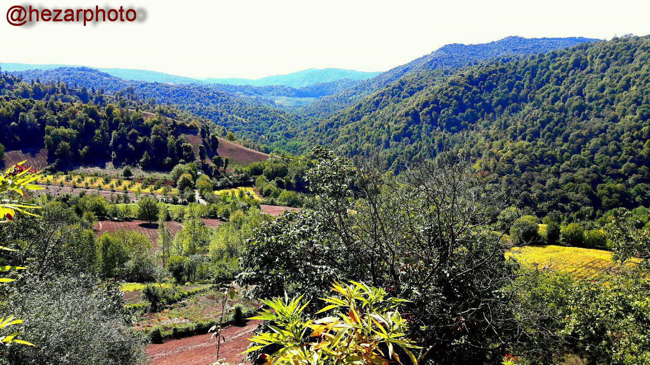 Beautiful view of the fields of the village of Shihkla in the spring